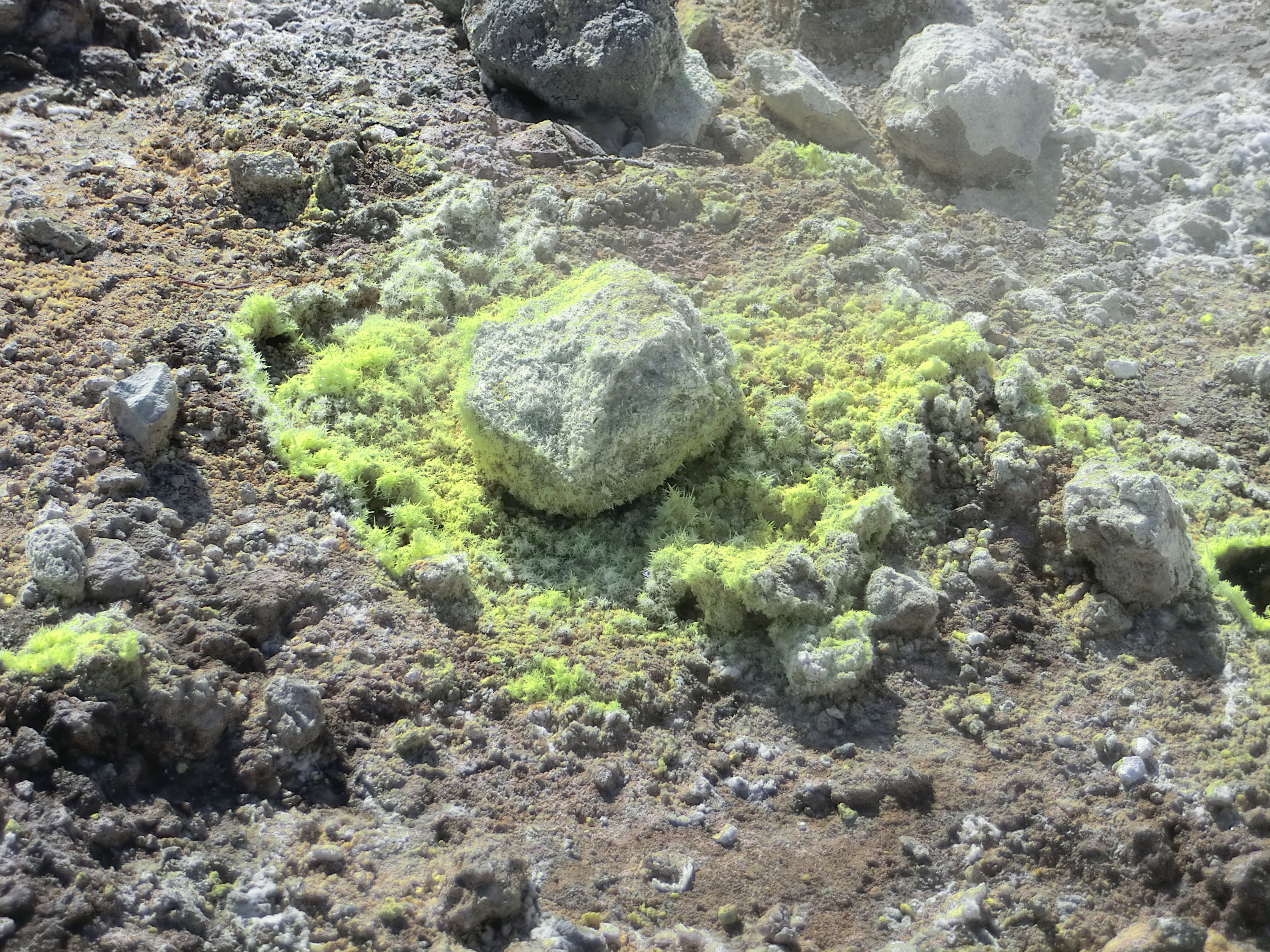 Fumarole in the Stefanos crater on the Island of Nisyros, Greece